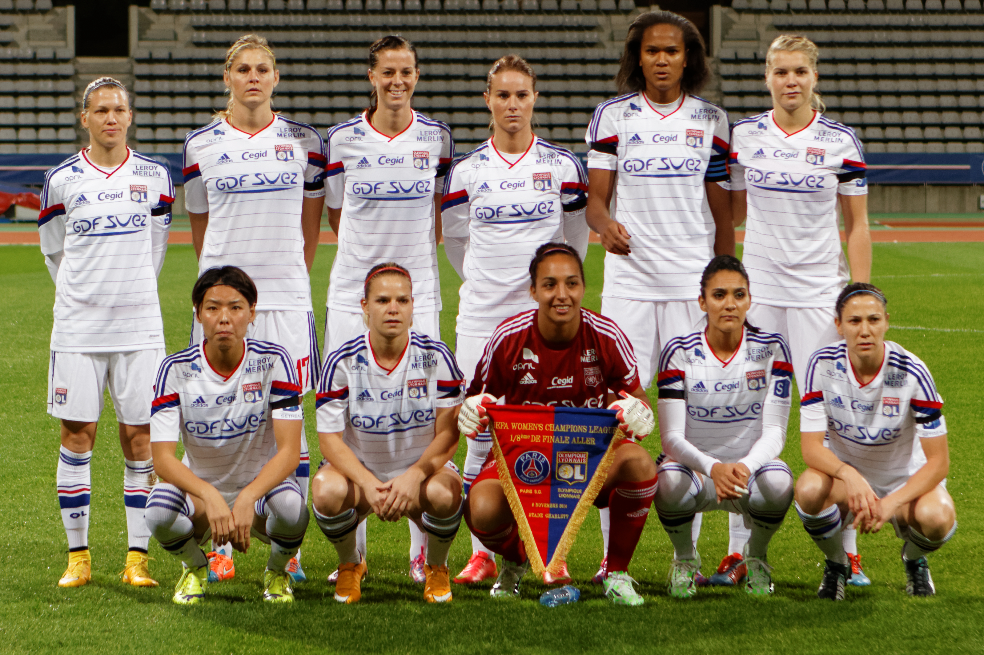 UEFA Women's Champions League, PSG - Lyon, 8 November 2014